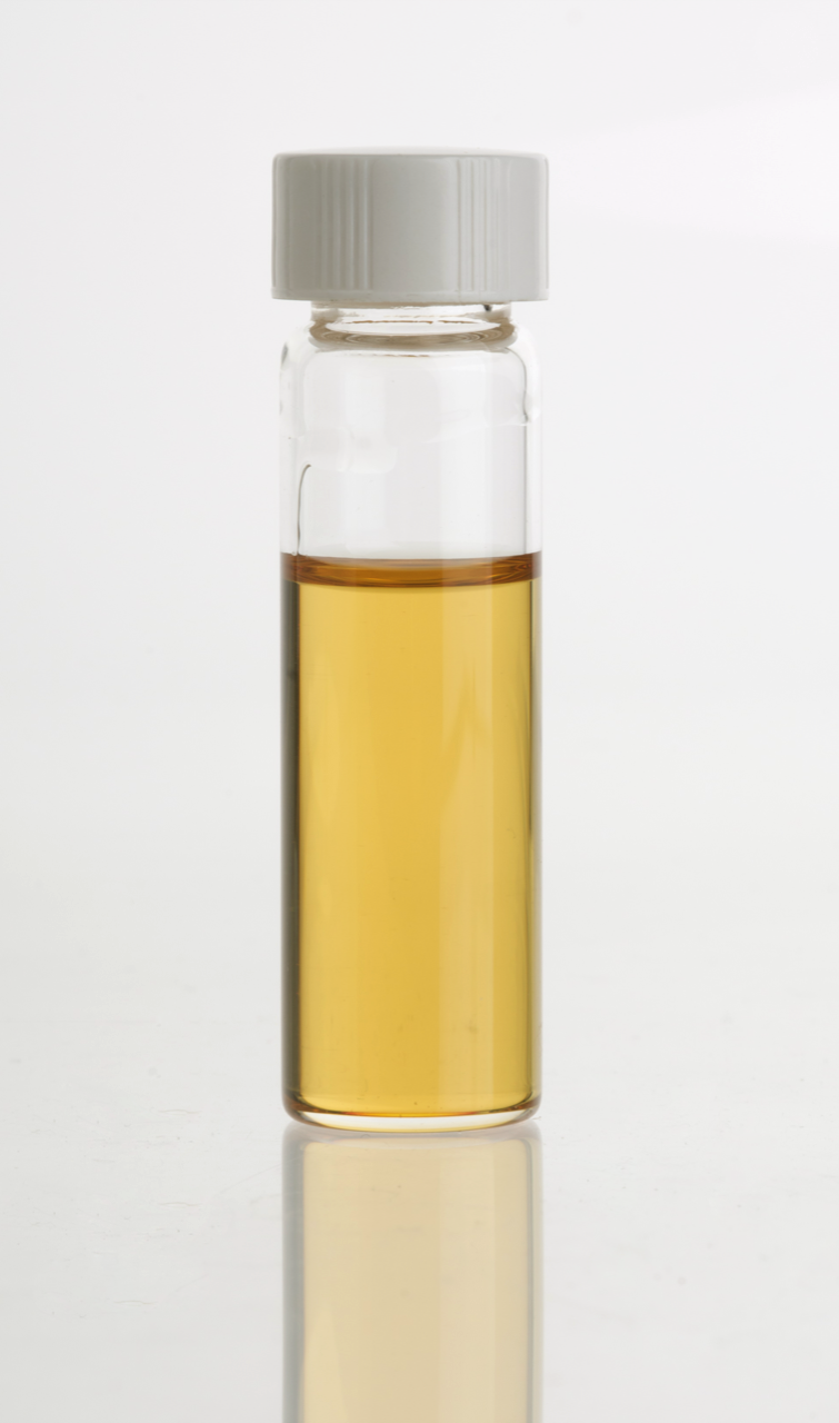 Glass vial containing Anise (Pimpinella anisum) Essential Oil